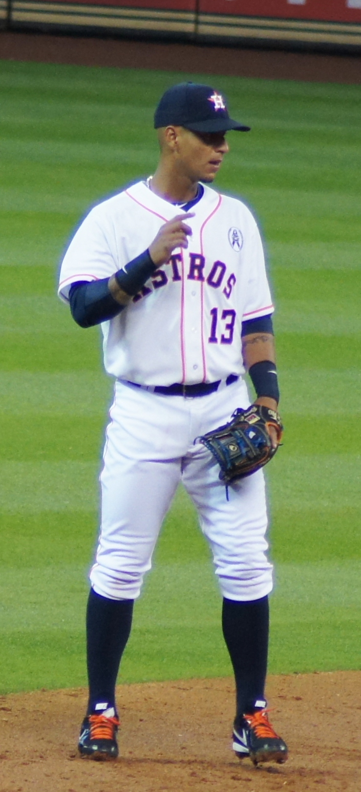 Ronny Cedeño on opening night for the Houston Astros